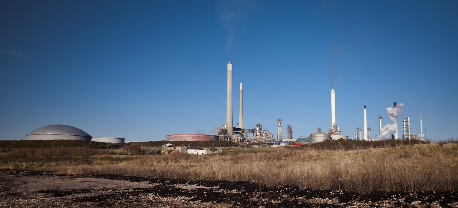 Chevron oil refinery, Pembrokeshire, UK.